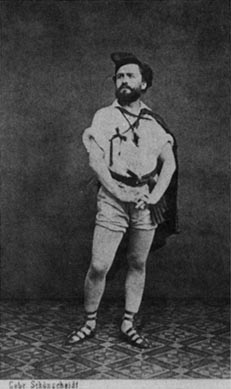 Hungarian opera singer Jozef Ellinger (1820–1891) in Erkel's opera "Bank ban"